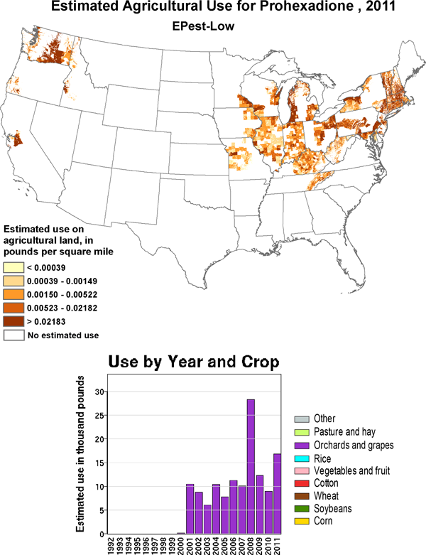 Prohexadione map of use, USA, 2011 (estimated)